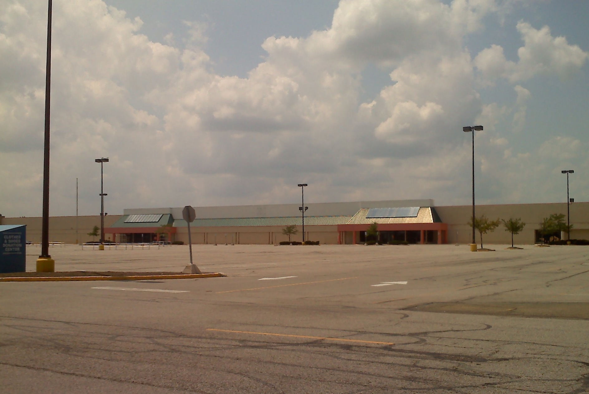 Exterior of the first Super Kmart Center store in Medina, Ohio as it appears after its closure.